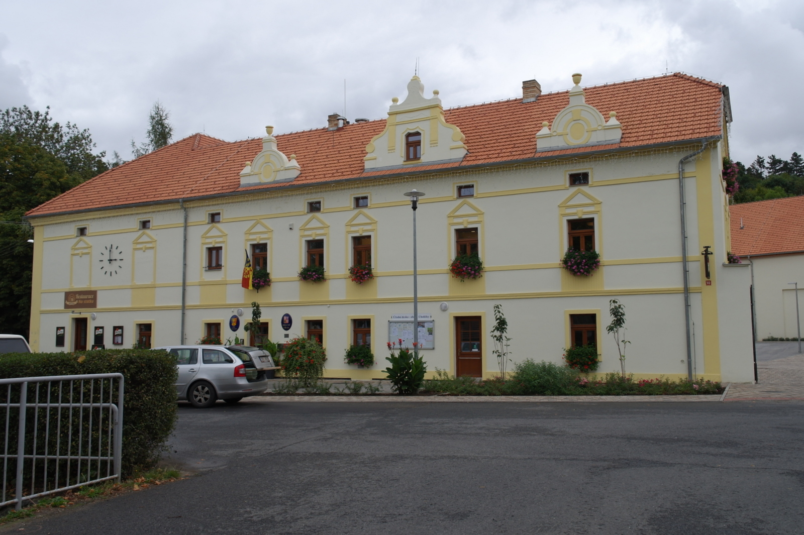 Municipal office Úholičky, 10 Náves sq., Úholičky, Prague - West District. A new seat in a renovated building.